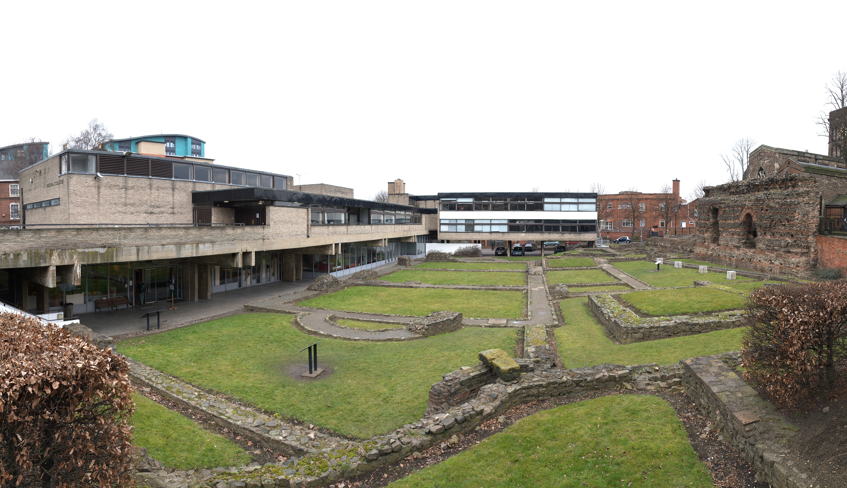 Panoramic view of the Jewry Wall ruins in Leicester, also showing Vaughan College.